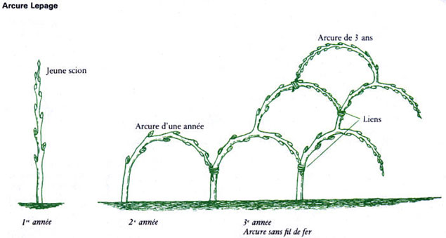 own work